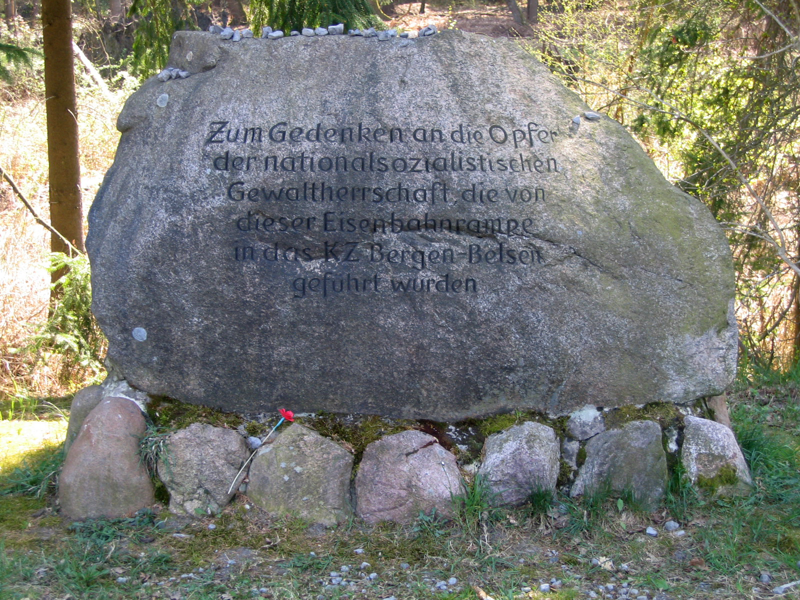 A memorial stone to victims of Nazi oppression erected near the tank loading ramps at Bergen. It was here where concentration camps victims were unloaded from goods wagons before their forced march to Belsen. Translated into English meaning: In memory of the victims of Nazi tyranny, which were guided by this rail ramp to the concentration camp Bergen-Belsen.